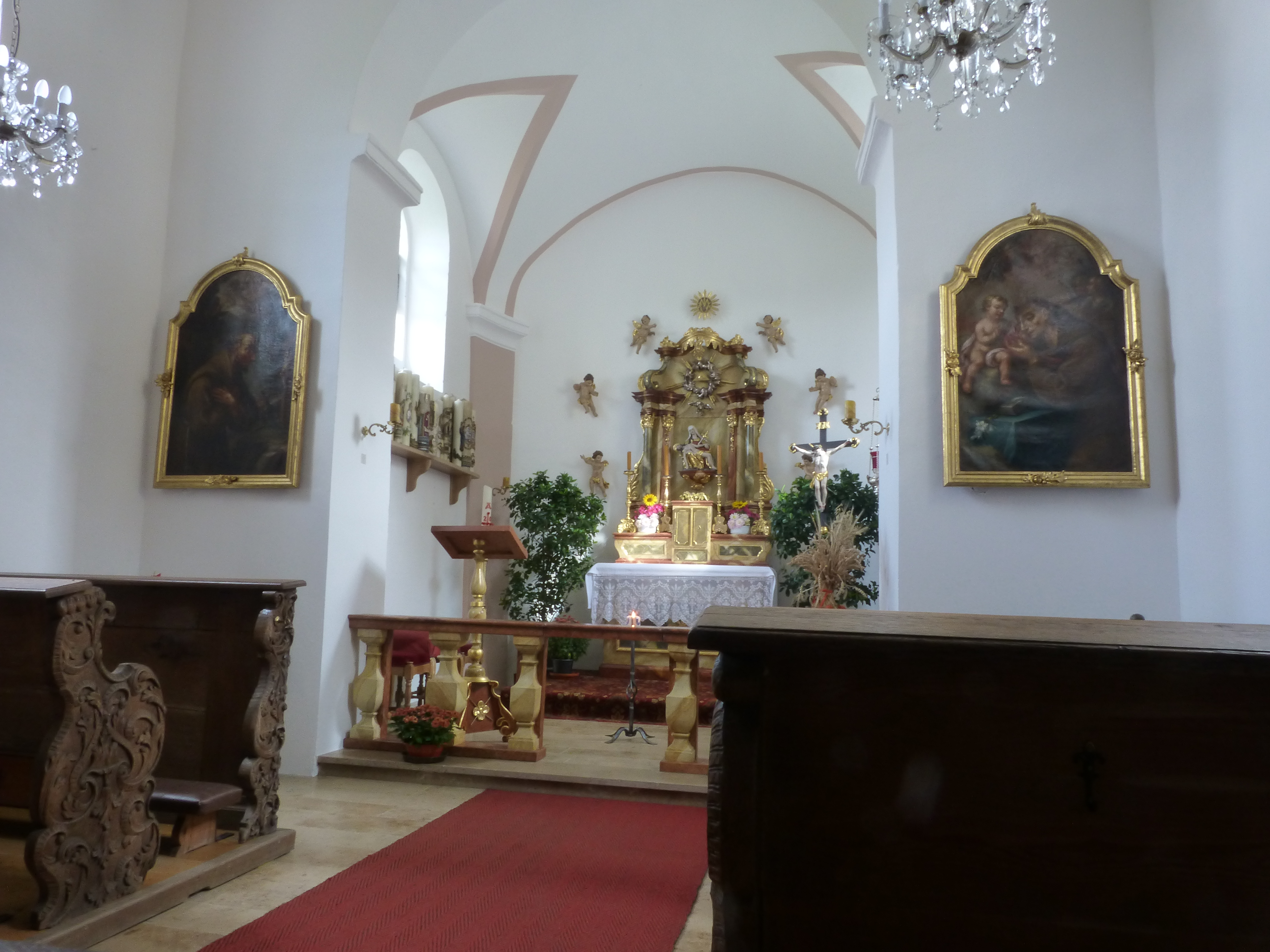 The hermitage of Frauenbründl, Bad Abbach, interior of the church